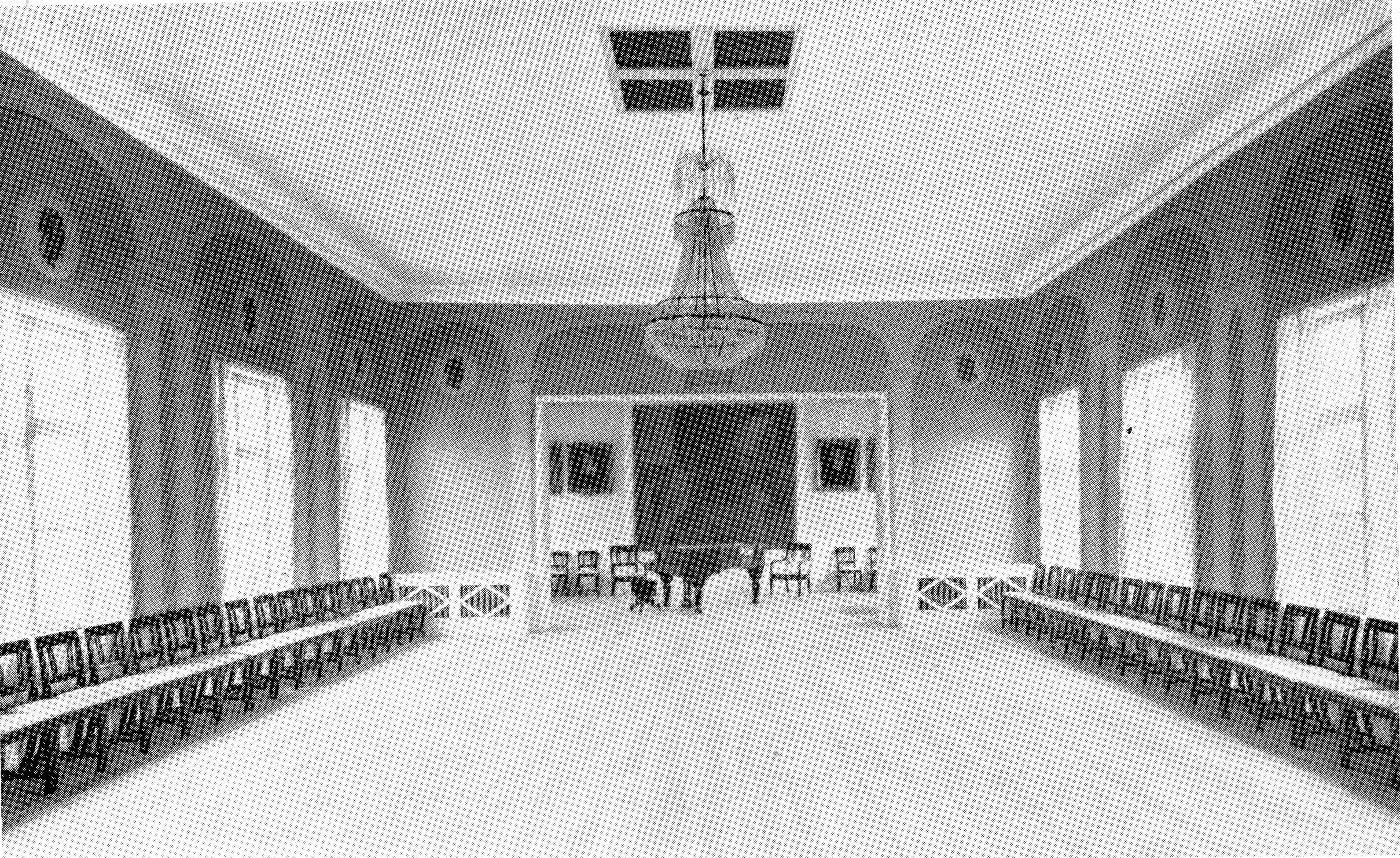 Västmanlands-Dala Nation, Uppsala. First nation house. Nation hall after 1915.